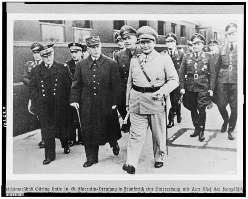 December of 1941: Hermann Göring being met by minister of defense Darlan and Marshal Pétain as he arrived for discussions with Marshal Pétain